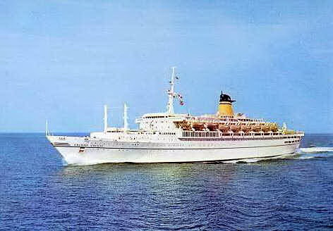 The motorship Guglielmo Marconi on a postcrad of the Lloyd Triestino